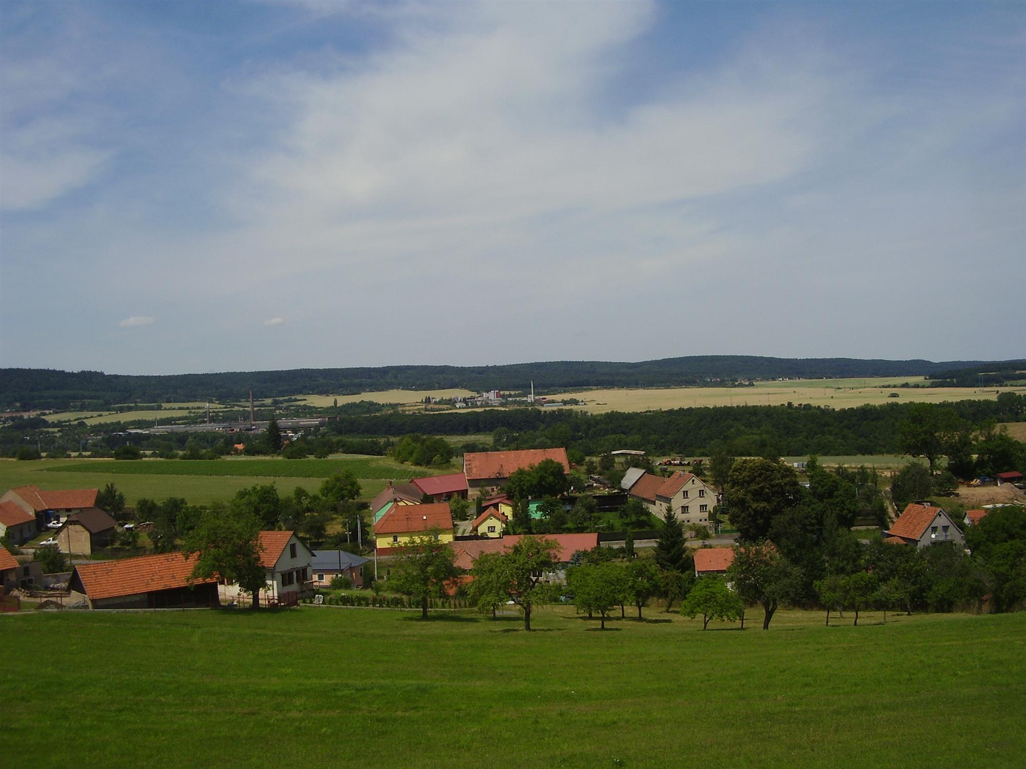 Rymáně from Čisovice